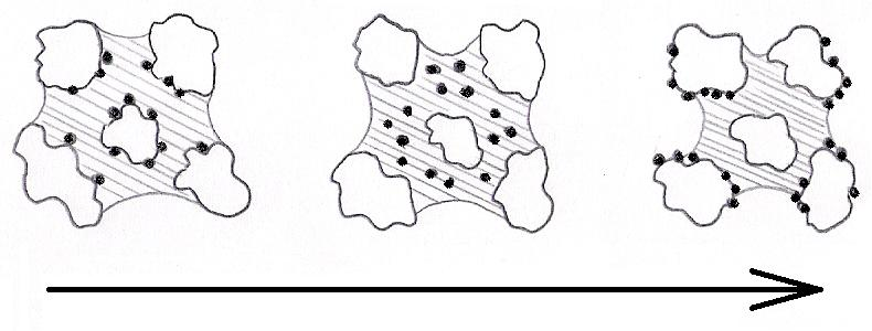 granulate